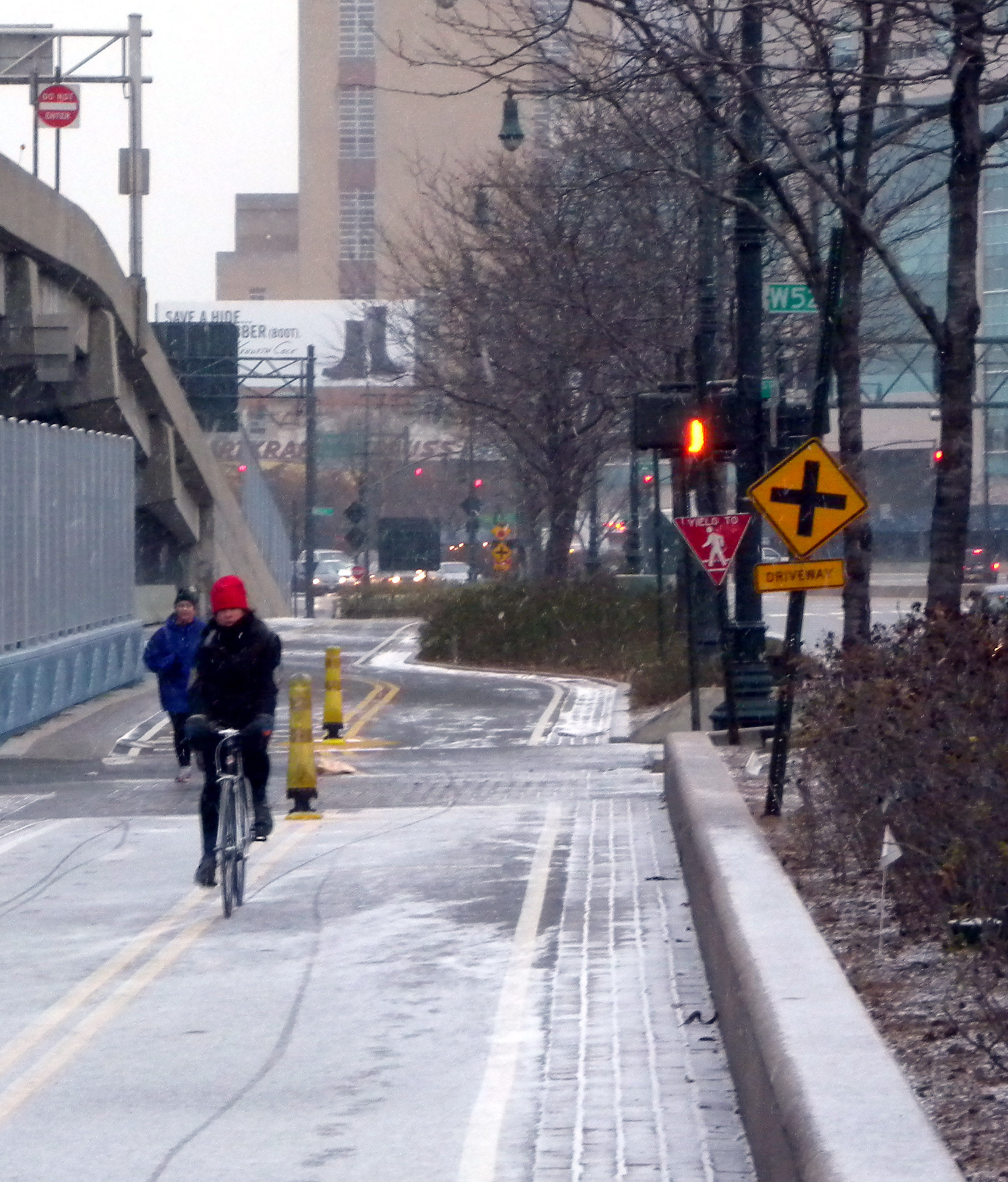 Looking north, zoomed, on Manhattan Waterfront Greenway as snowstorm begins.